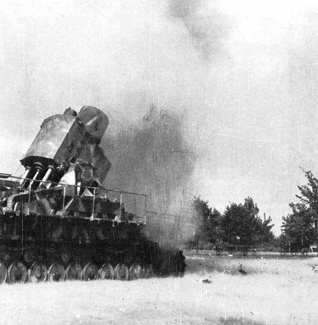 Warsaw Uprising: "Ziu" German 600mm caliber mortar of type "Karl" during bombing of Warsaw Old Town from Sowiński Park in Wola district.